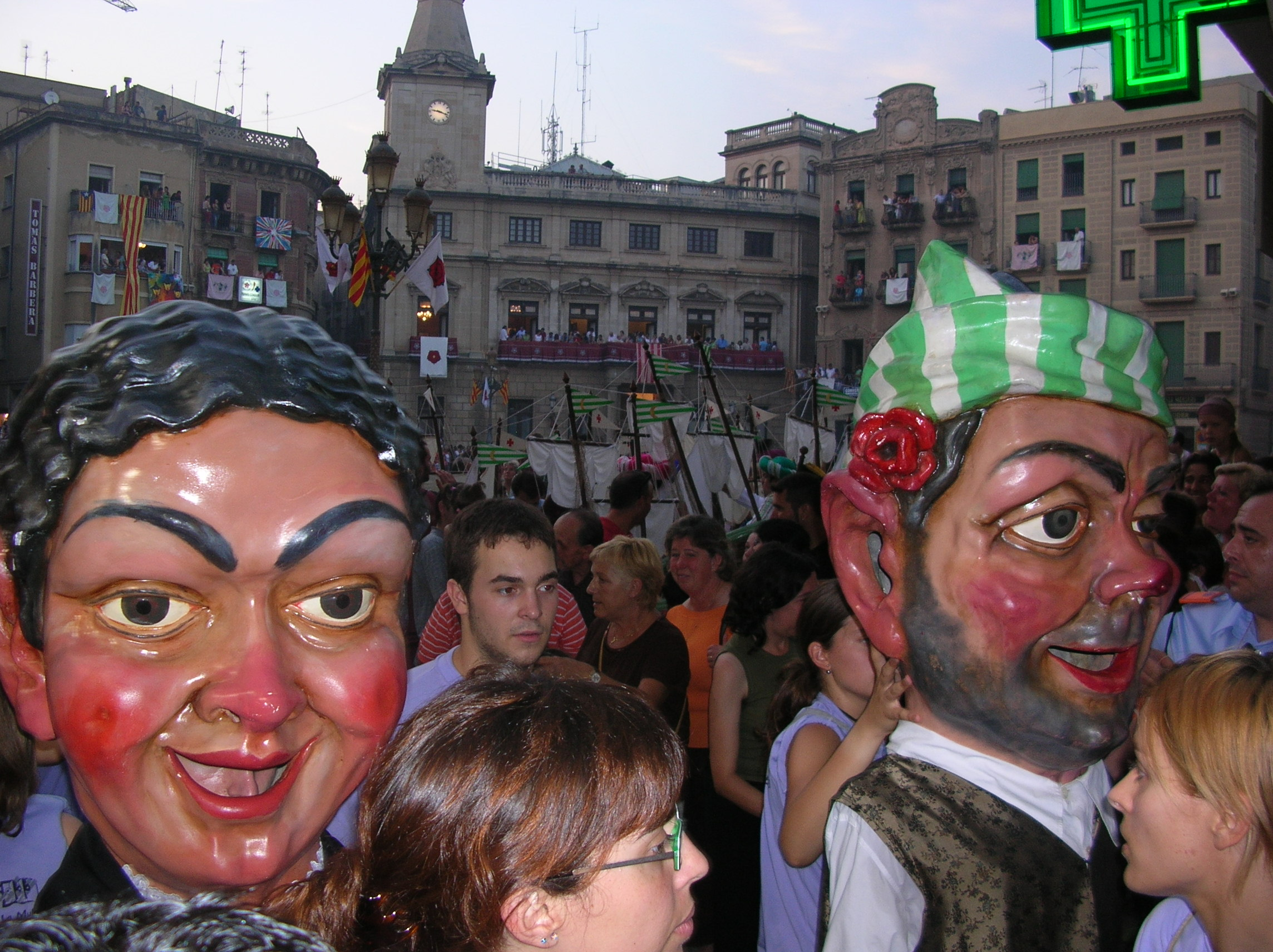 The "Nanos" of Reus, Catalonia.